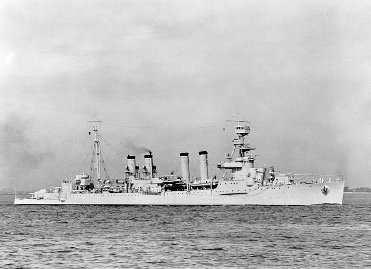 The U.S. Navy light cruiser USS Milwaukee (CL-5) photographed circa the early 1930s.